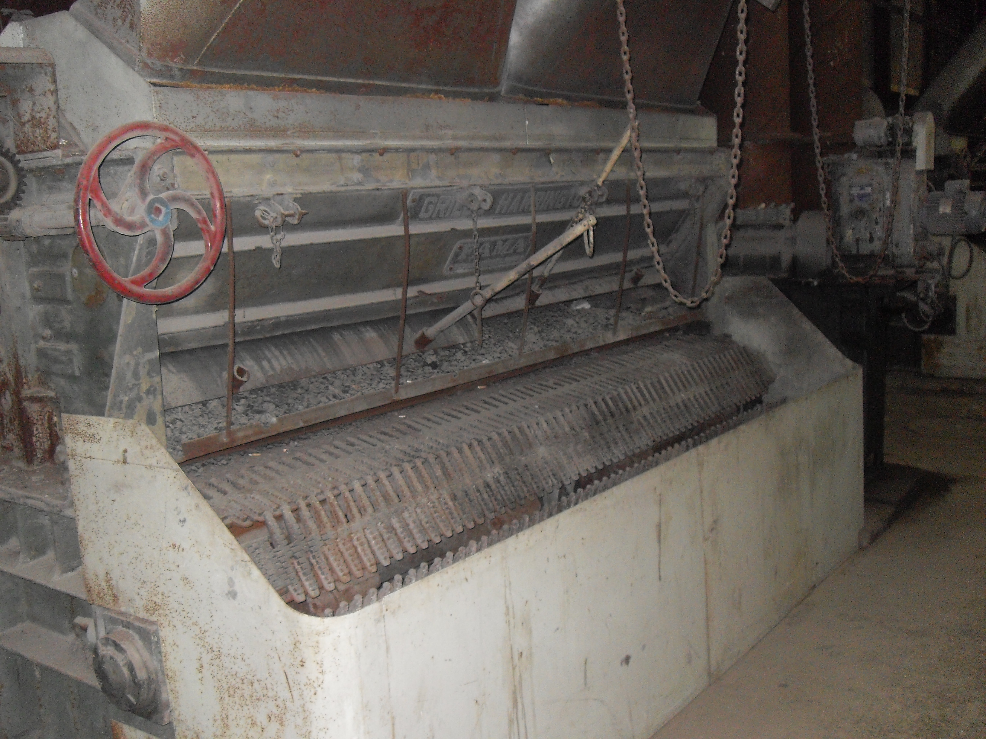 travelling grate of a 25 bar coal fired steam boiler in a sugarfactory